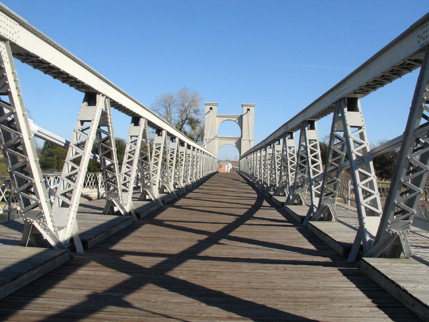 Waco Suspention Bridge. 2 January 2007. Image by Georgi Petrov